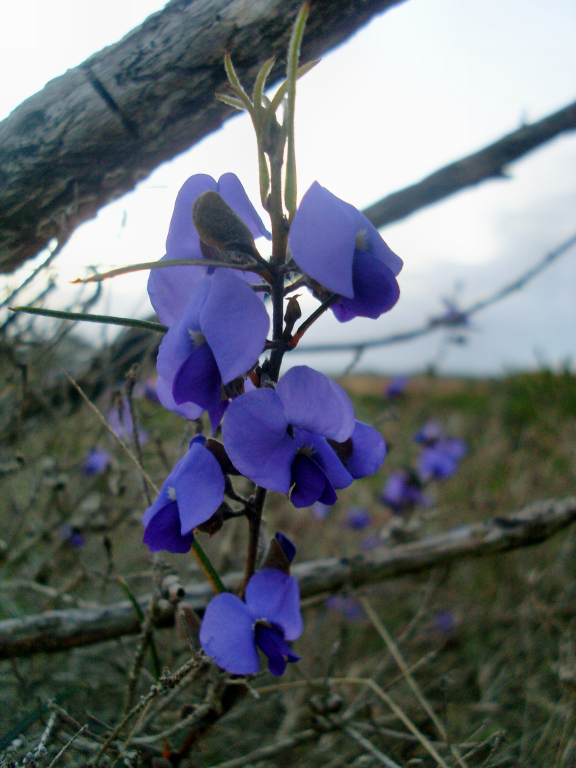 Hovea trisperma